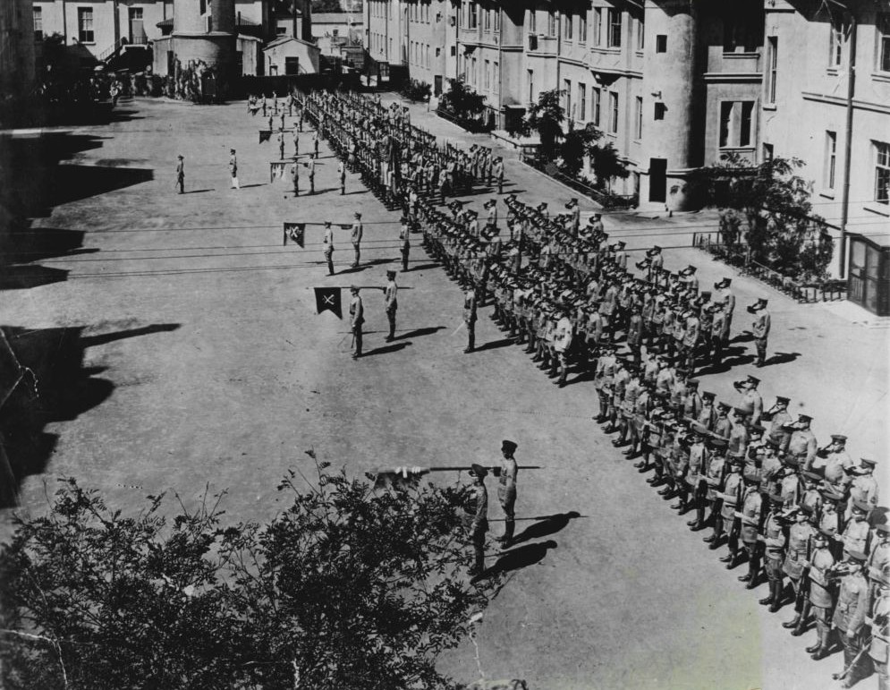 The US 15th Infantry on parade in Tientsin in the aftermath of severe rioting in the city in November 1931. US troops were joined in guard duty by the troops of other powers.